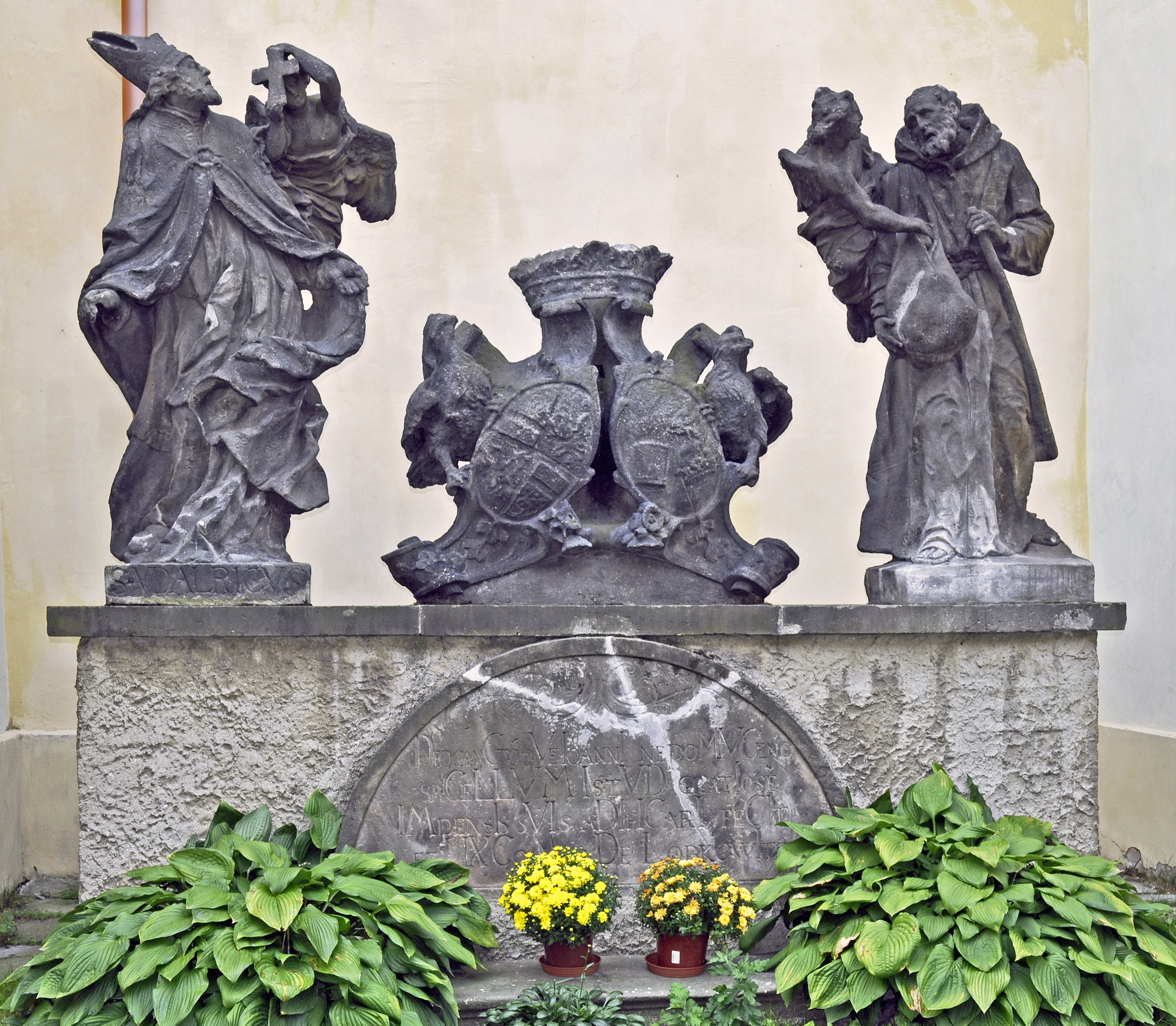 Statues - set of statues at the east wall of the Michael Church in Litvínov